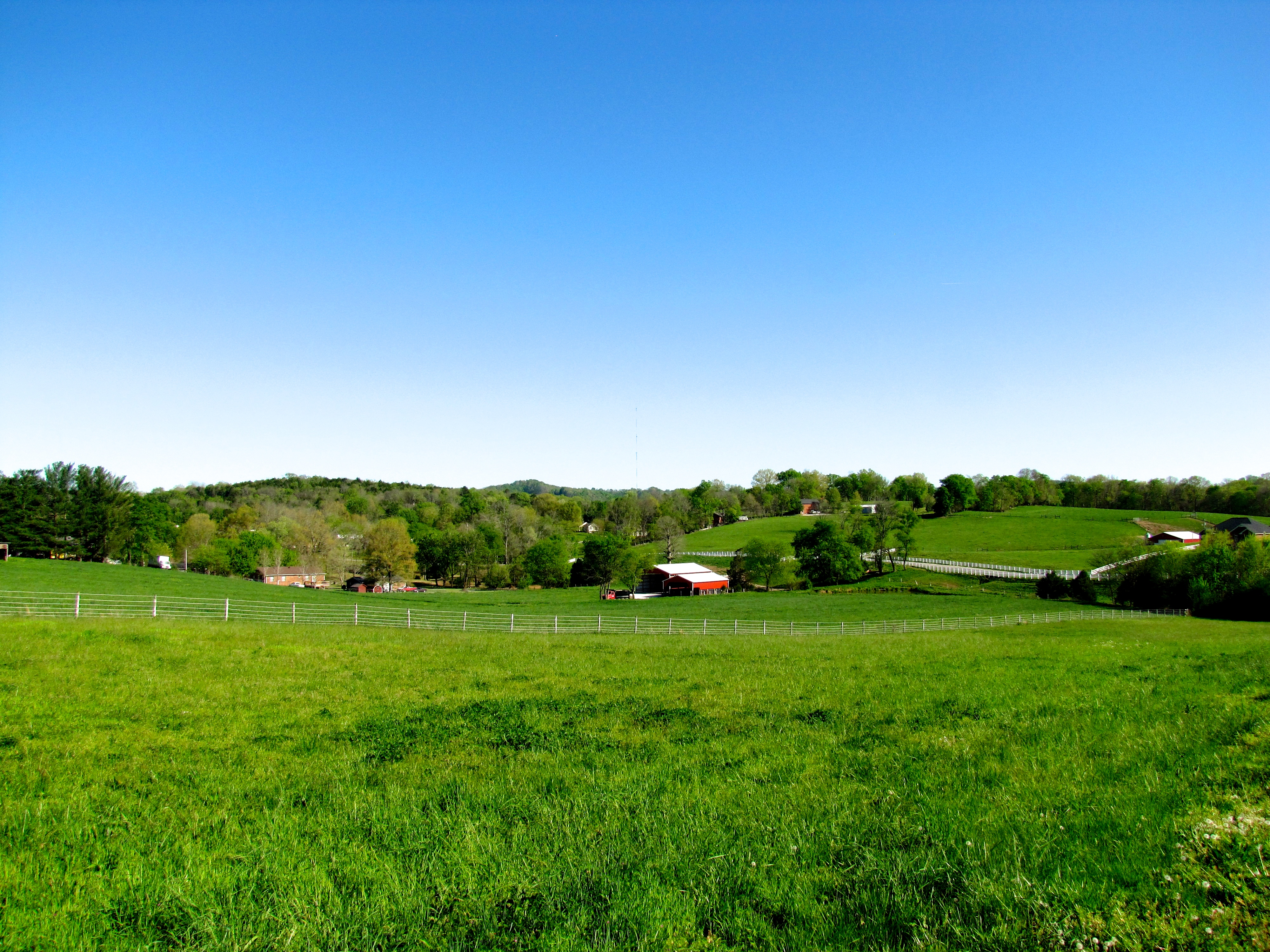 Fields and buildings near Gordonsville, Tennessee, United States.